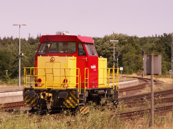 photographed by myself , michael bienick